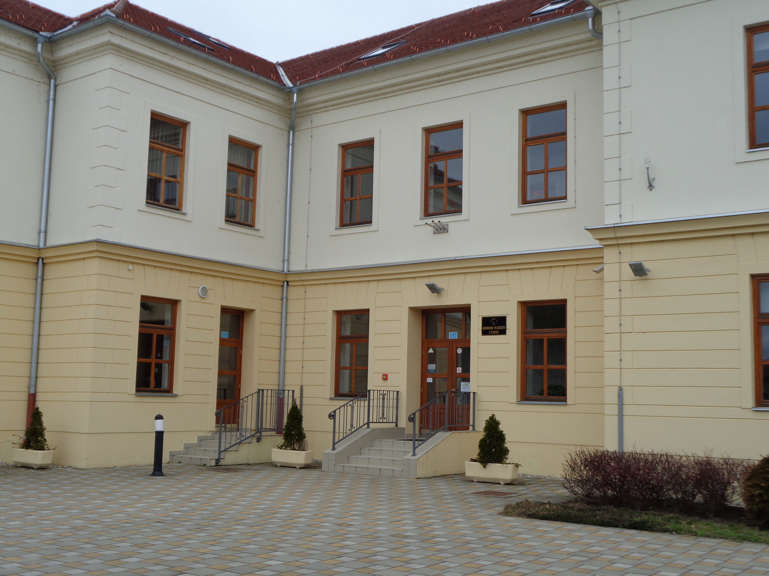 Međimurje Polytechnic in Čakovec, Croatia - entrance